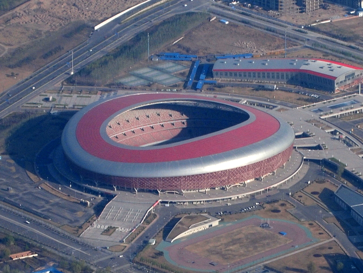 The Shanxi Sports Centre Stadium from above